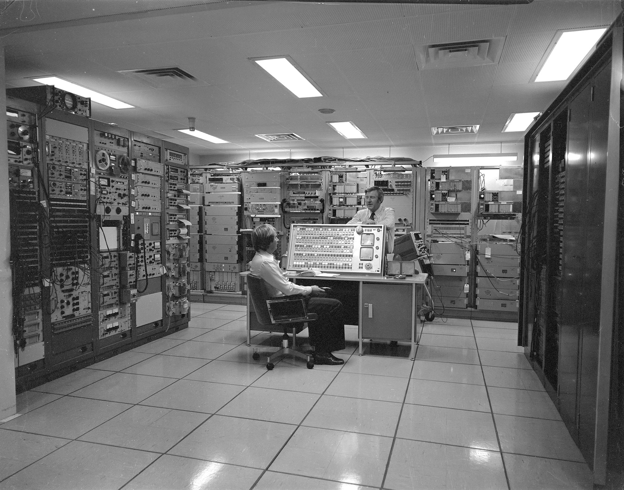 A photo of the Deakin Telephone Exchange interior, 1966